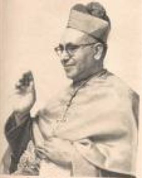 Bishop Alfonso Toriz Cobian